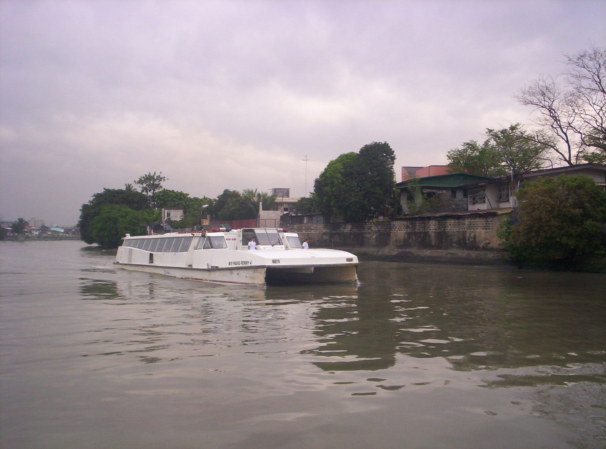 Pasig Ferry 4 approaching Santa Ana Station in the Pasig River in Santa Ana, Manila.